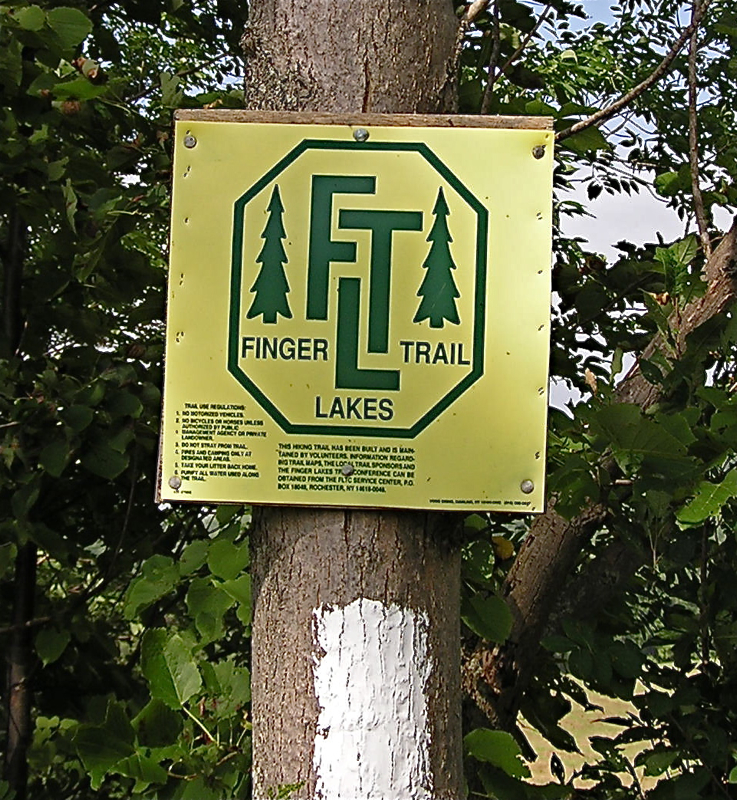 Trail marker on the Finger Lakes Trail in Howard, New York